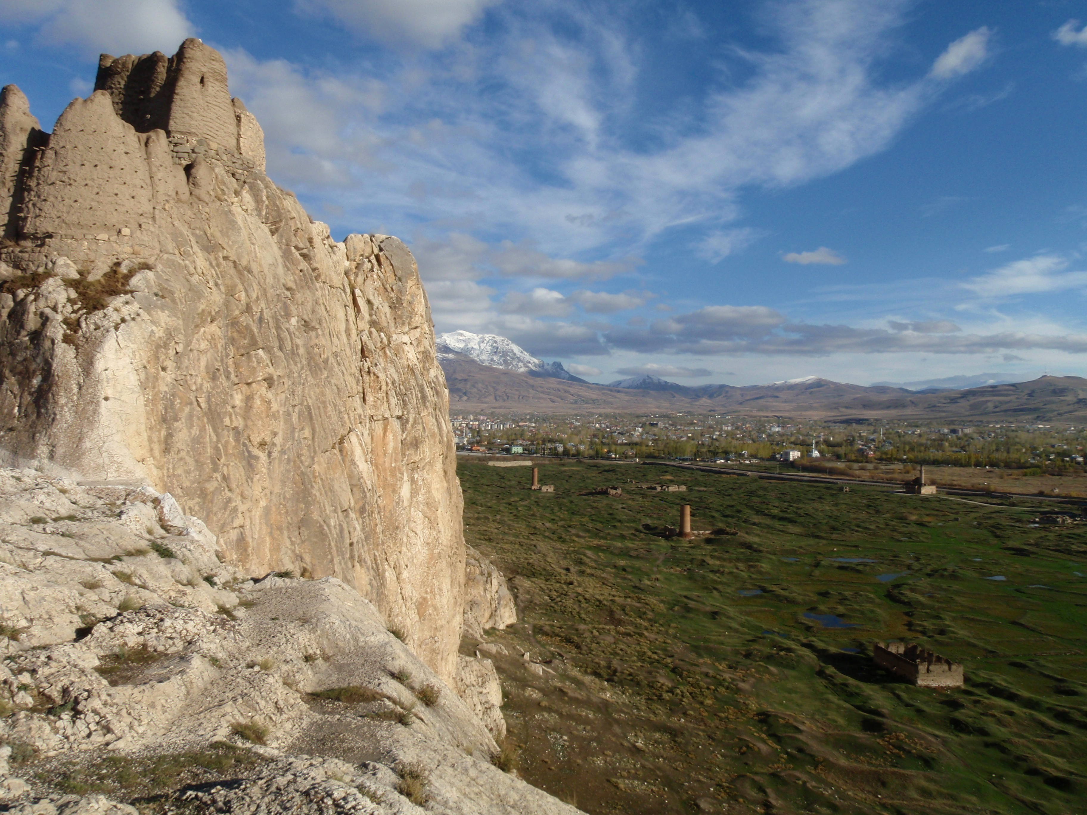 Van castle, Tushpa. Van, Turkey